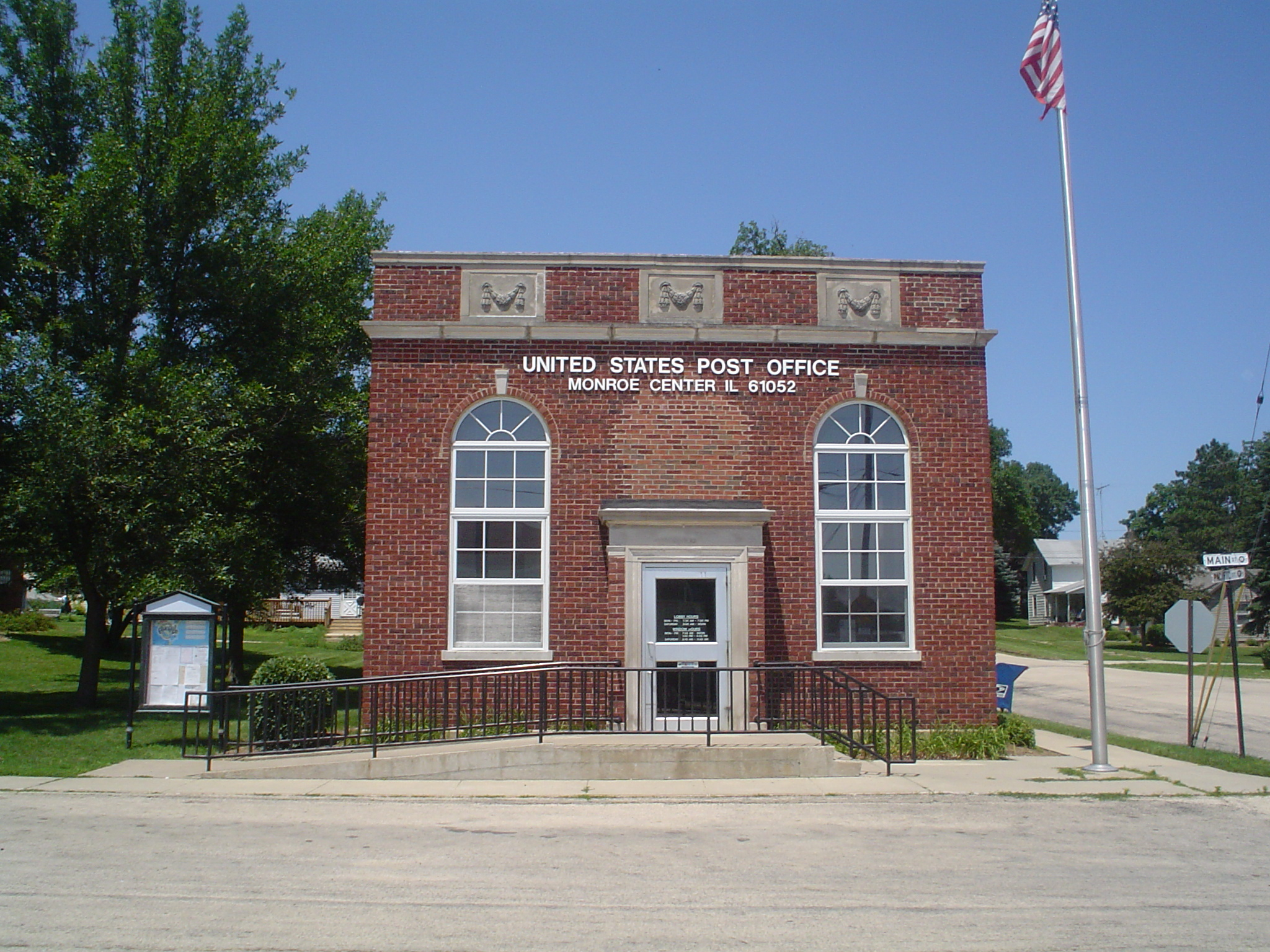 Picture of the post office in Monroe Center, Illinois, Illinois.